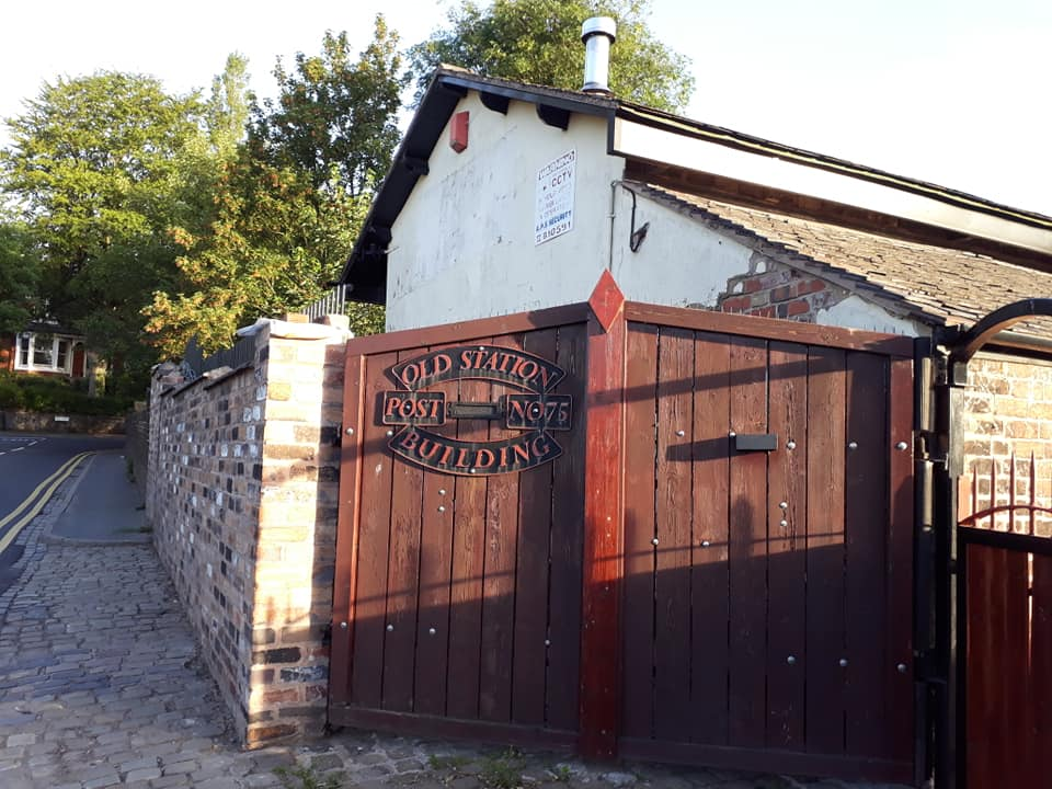 My own.